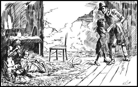 «The Secret of Englands Greatness: 5d per hour» by Livingstone Hopkins in The Australian Bulletin, August 1889